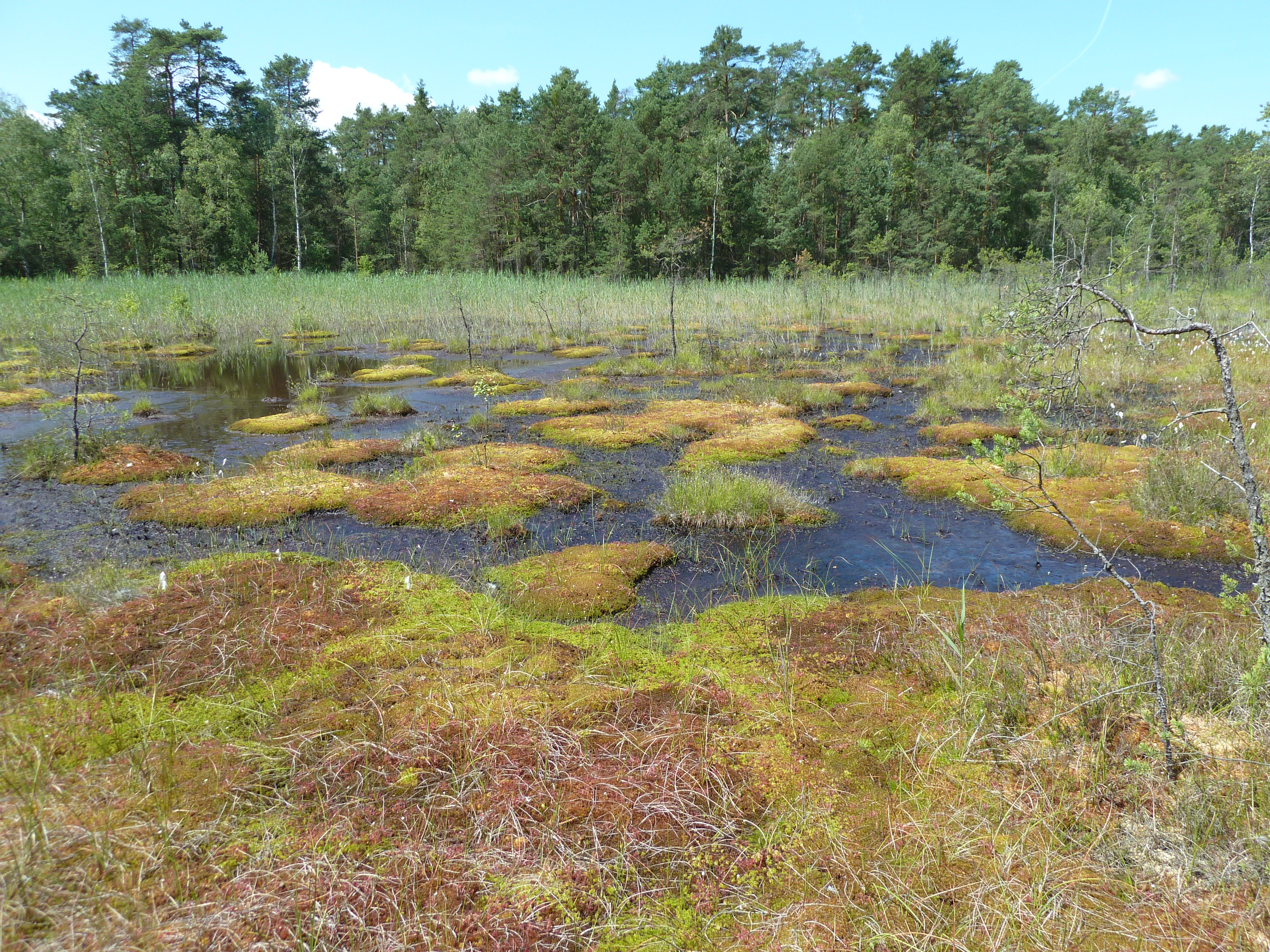 National nature monument "Swamp" near Máchovo jezero (Česká Lípa district, Czech Republic)